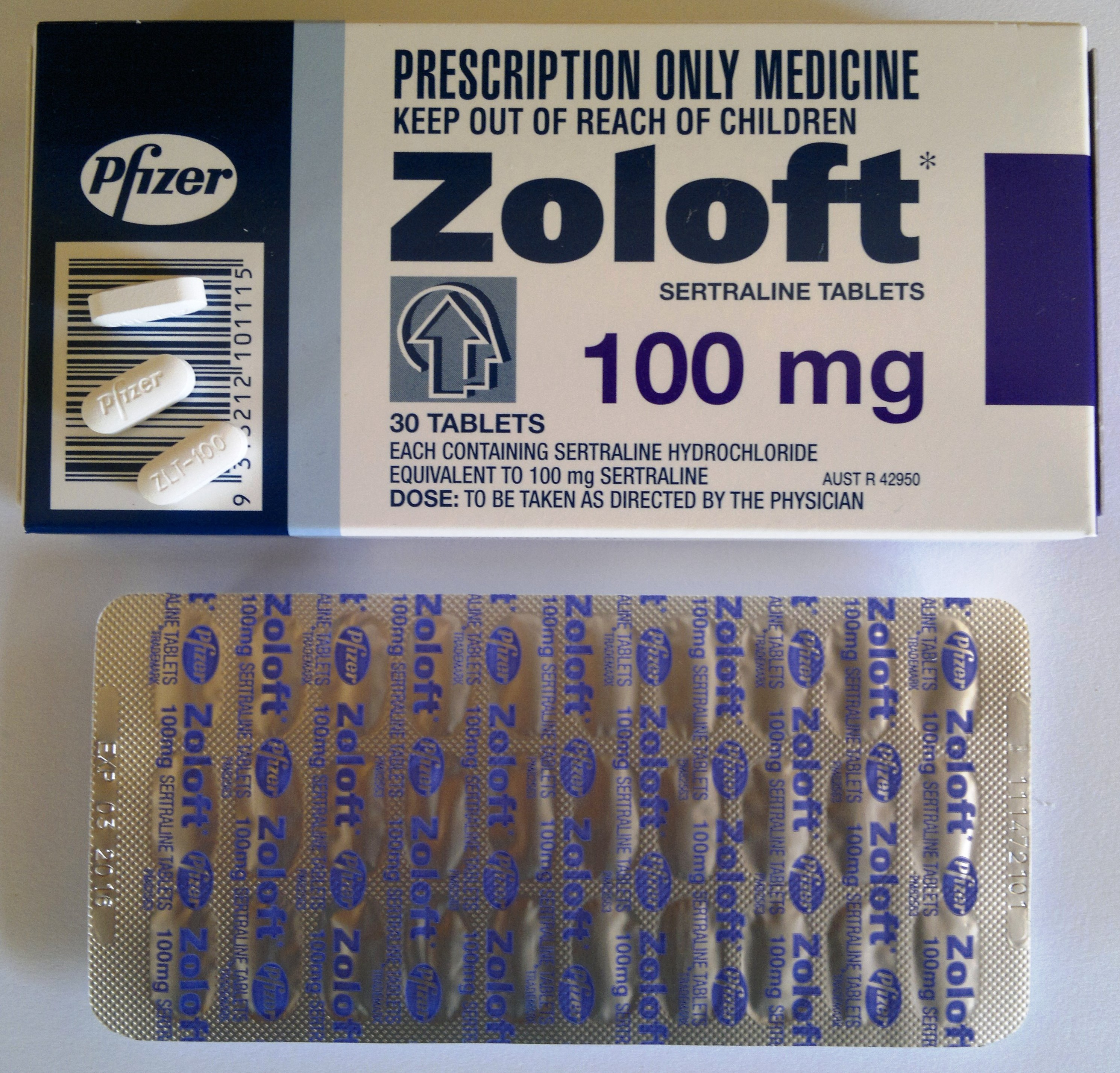 Zoloft